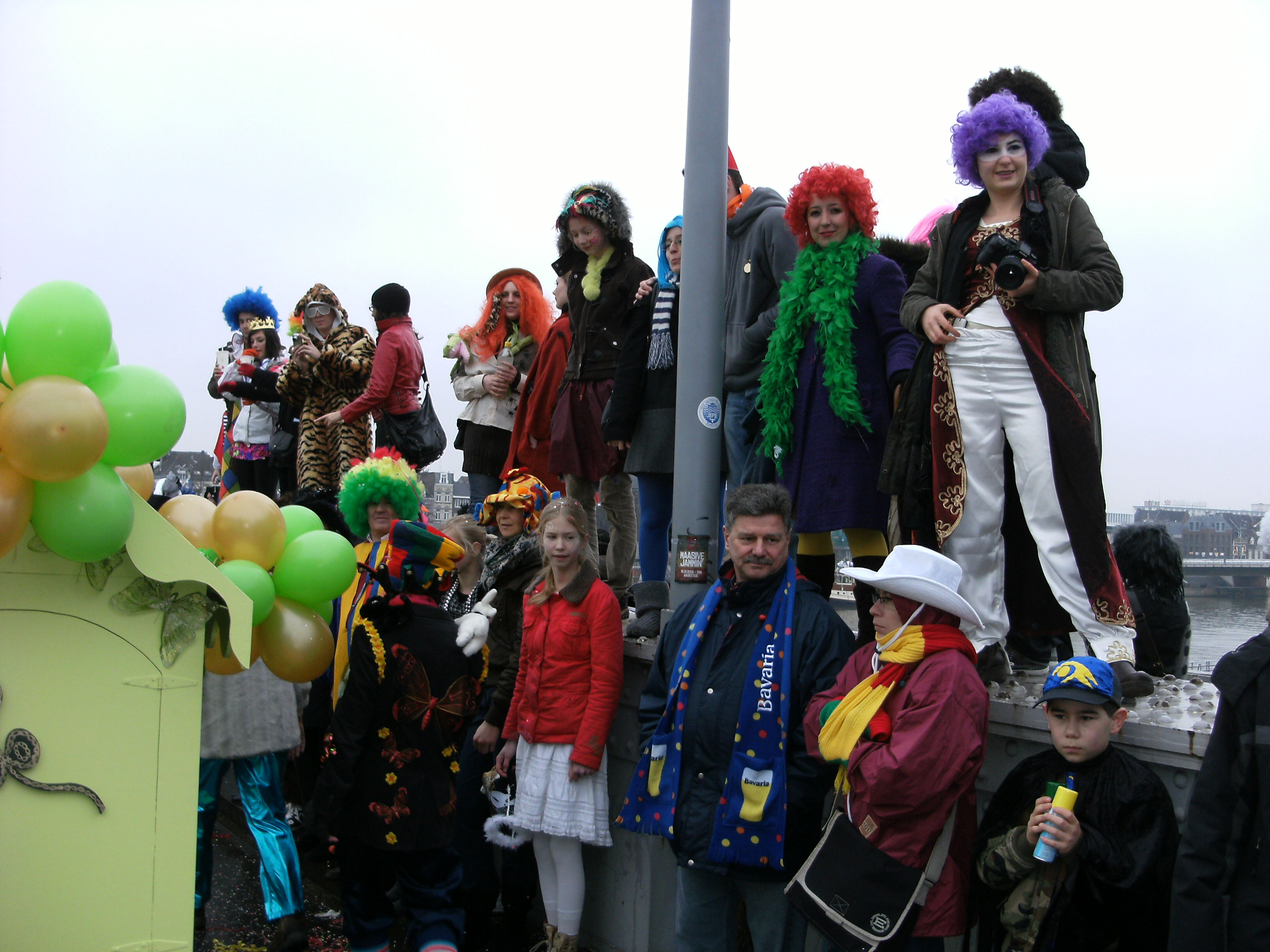 St. Servatiusbridge Maastricht carnaval 2009.